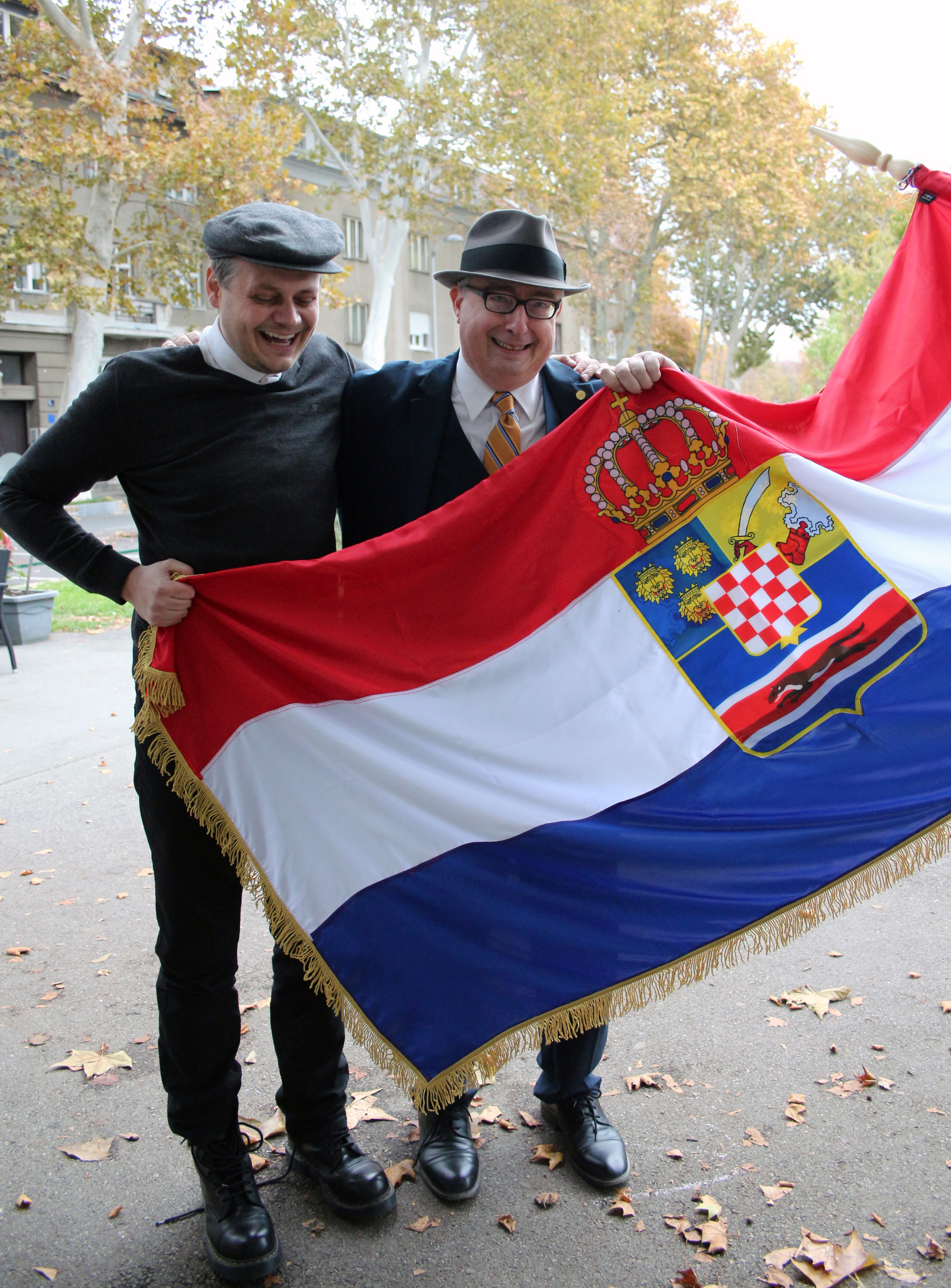 Charles A. Coulombe, Great War commemoration in Croatia, holding a Royal flag with a Croatian monarchists